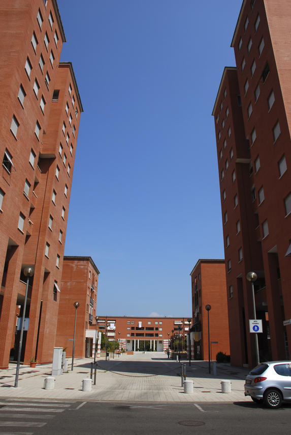 Cavallaccio RC10 Palace, Florence, Italy. Courtyard and Towers.